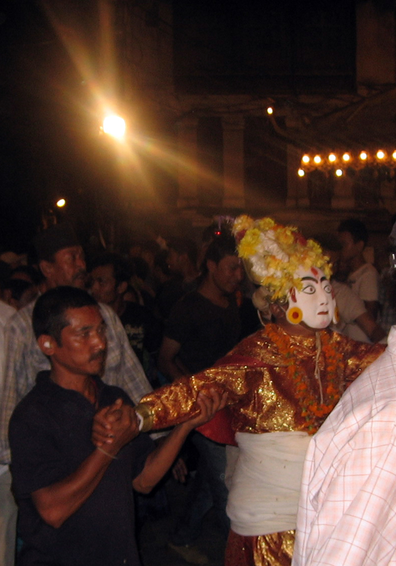 Masked man representing the goddess Dagin (दागिं) is taken in procession in Kathmandu during Yenya festival (Indra Jatra).